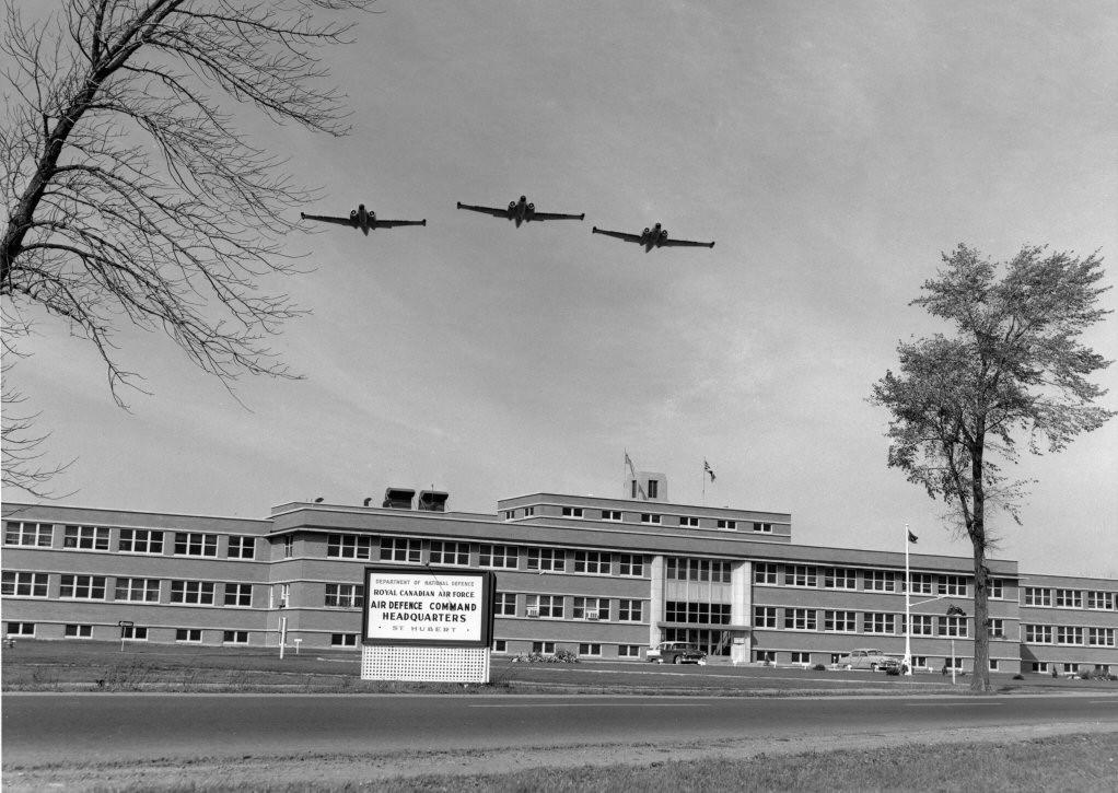 HQ RCAF Air Defense Command. RCAF Station St-Hubert Quebec Canada. 1950s - 1960s